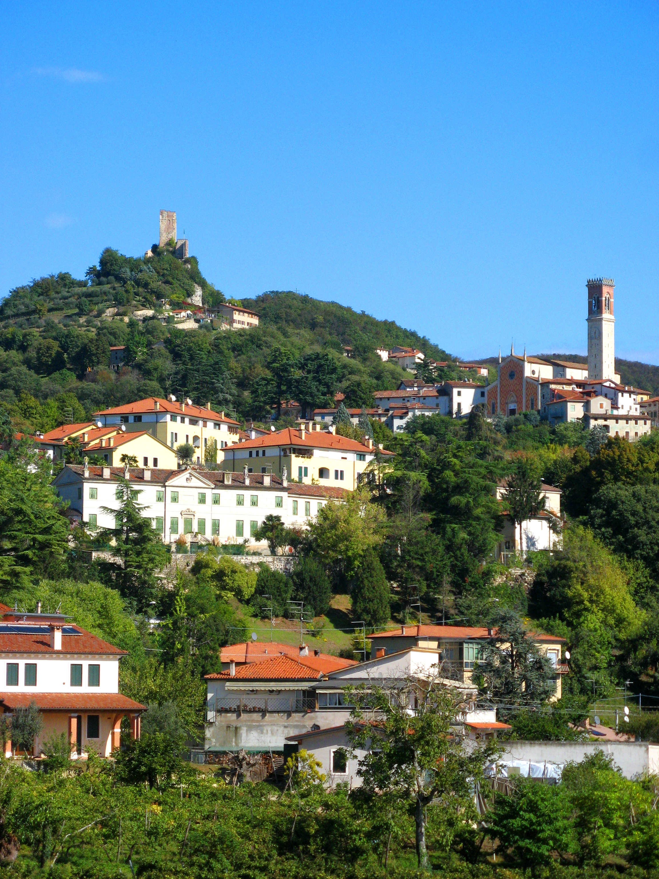 View on Rocca dei Vescovi and St. Michael's Church, Brendola (Italy).